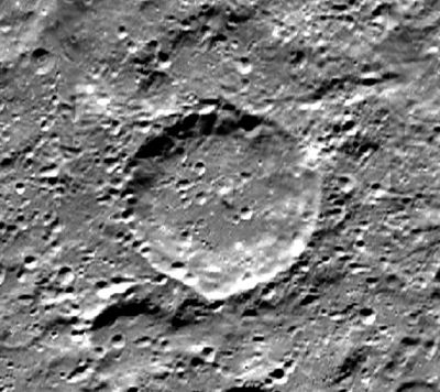 Clementine image from Map-A-Planet.